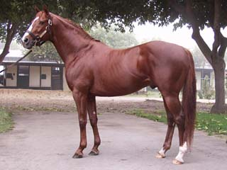 Thoroughbred-Stallion Gentleman pedigree